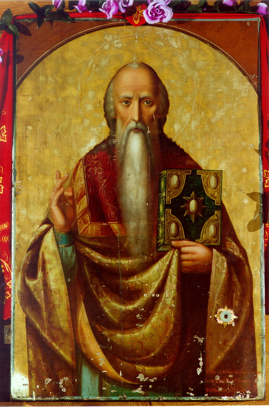 Priest Harlampiy. Icon of XIX century. Athos. Greece